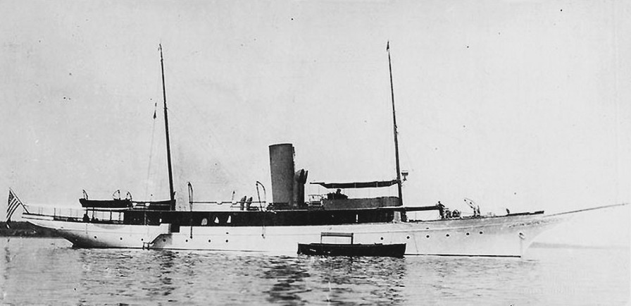 Photo #: NH 48478 Wenonah (American Steam Yacht, 1915) Photographed prior to World War I. Taken over by the Navy in 1917, this yacht became USS Wenonah (SP-165) and was later designated PY-11.